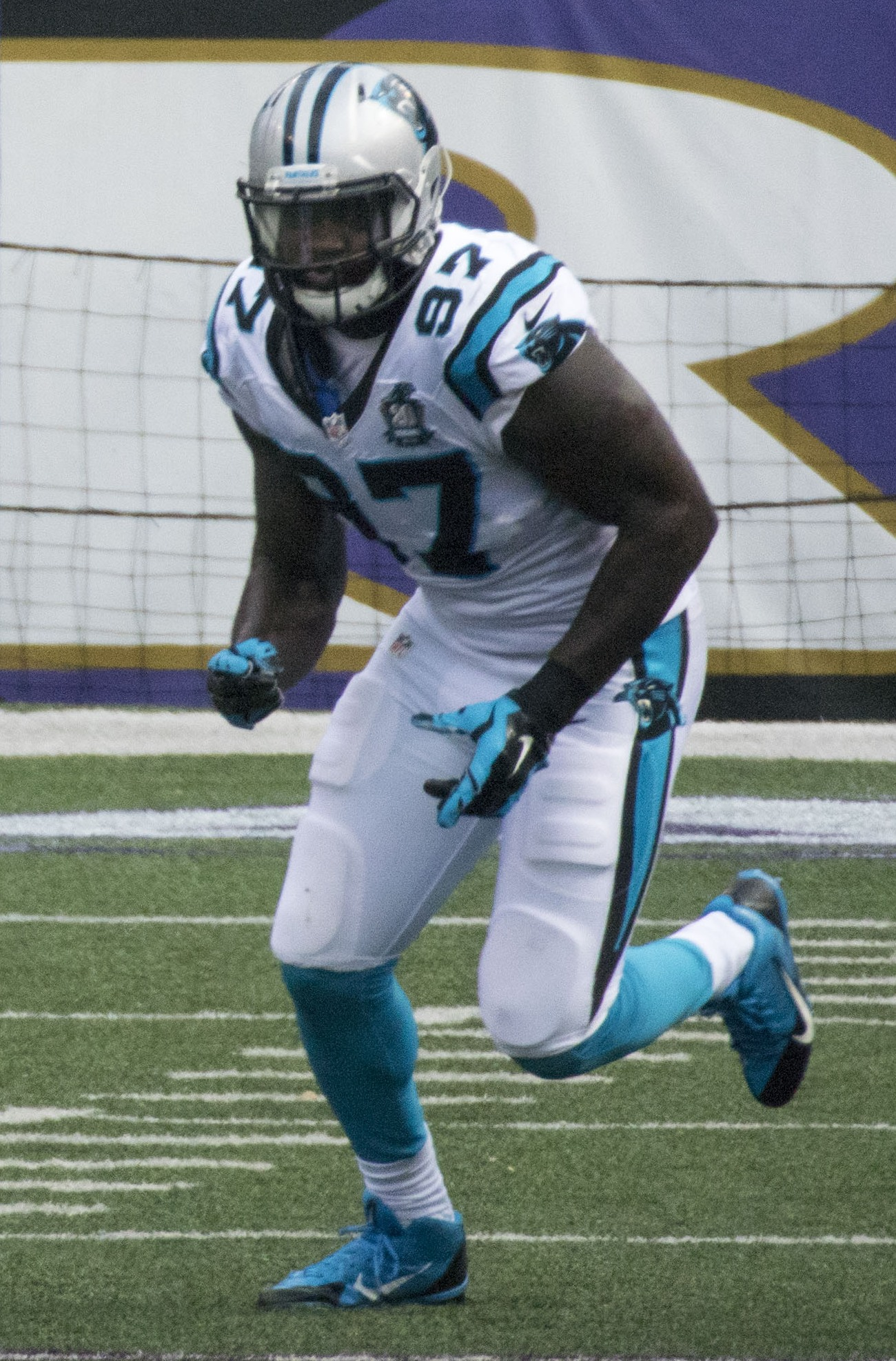 Carolina Panthers defensive end, Mario Addison, in a game against the Baltimore Ravens on September 28, 2014.